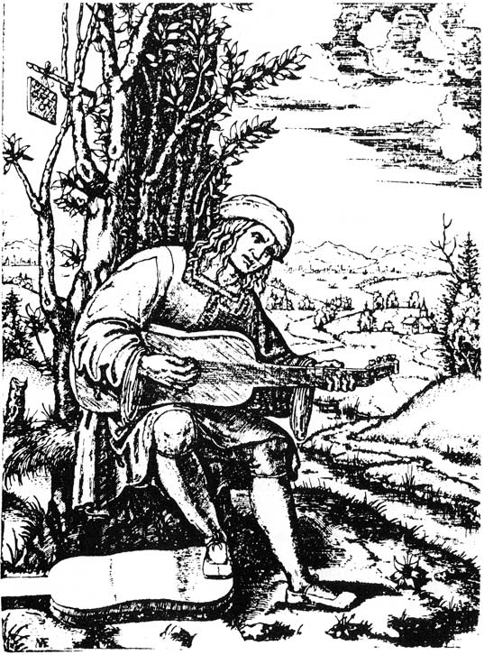 From english wikipedia: Marcantonio Raimondi, Suonatore di viola da mano (ca. 1510), engraving. Produced after a lost original painting by Francesco Francia. 05:20, 22. Mär 2006 . . Brian0918 (Talk) . . 537 x 726 (136.108 Bytes) (Giovanni Filoteo Achillini Marcantonio Raimondi, Suonatore di viola da mano (ca. 1510), engraving. Produced after a lost original painting by Francesco Francia.